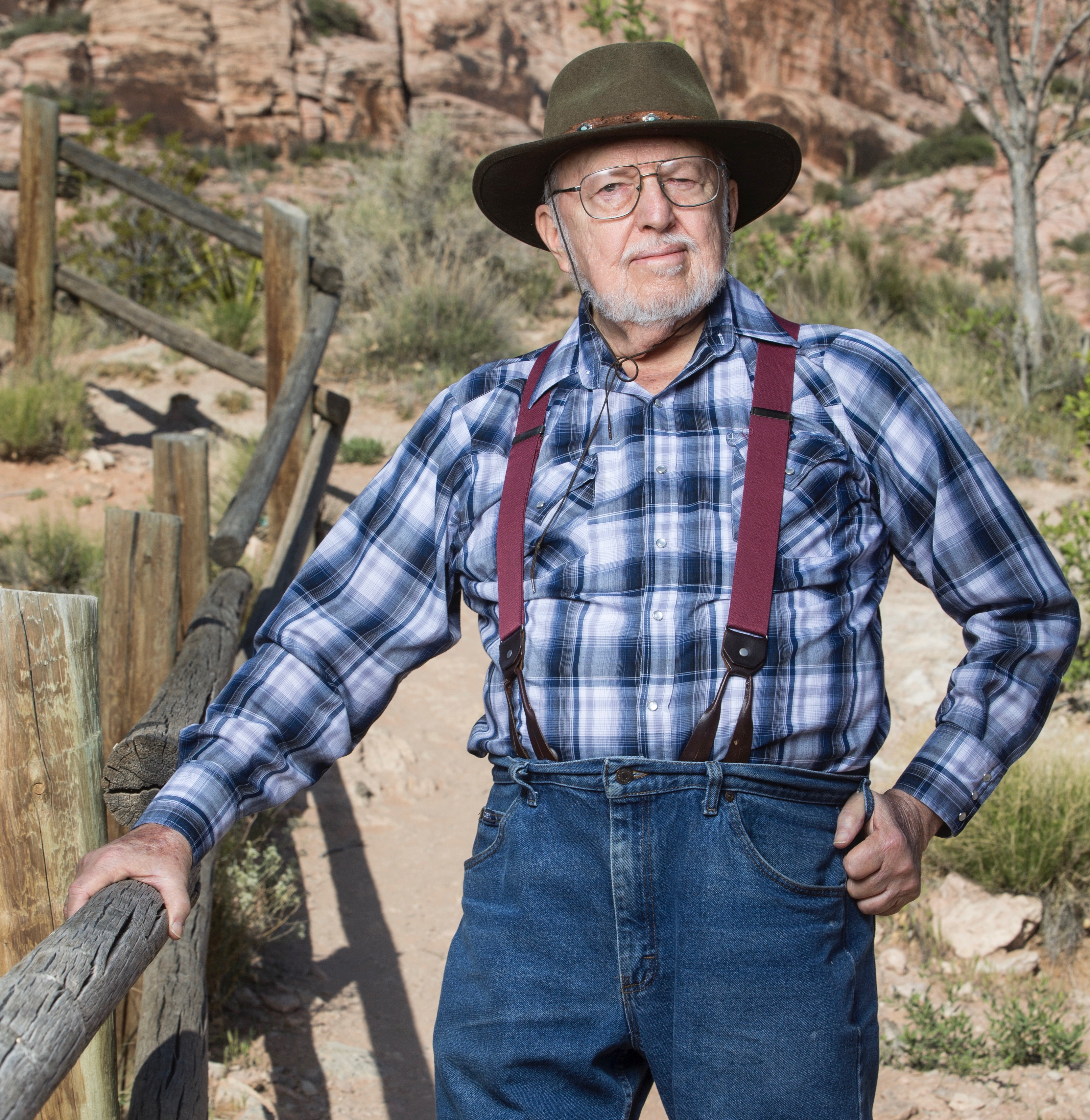 Author A.D. Hopkins